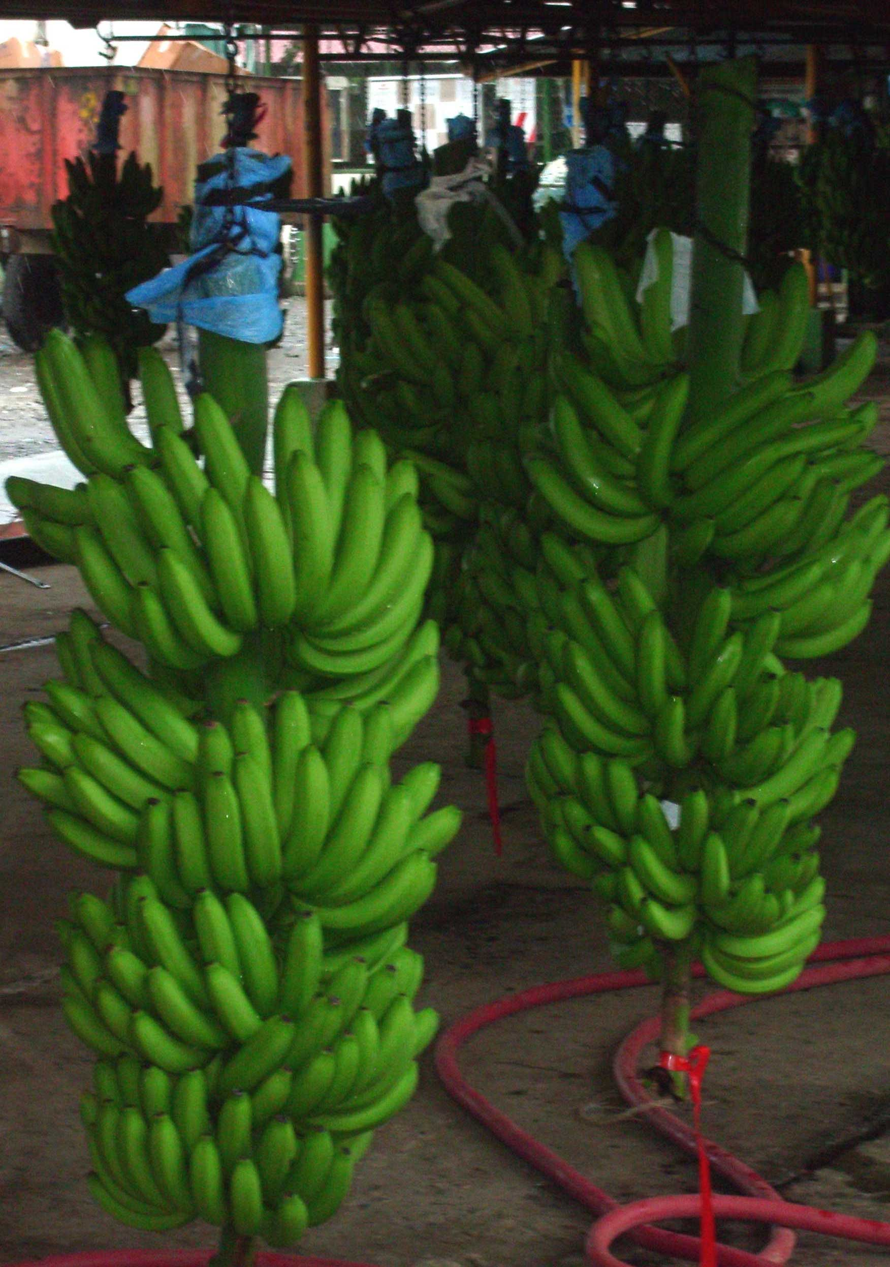 Bunches of bananas recently brought in from the fields in a Costa Rican banana facility packing and preparing bananas for Del Monte. Picture taken in Jan. 2006